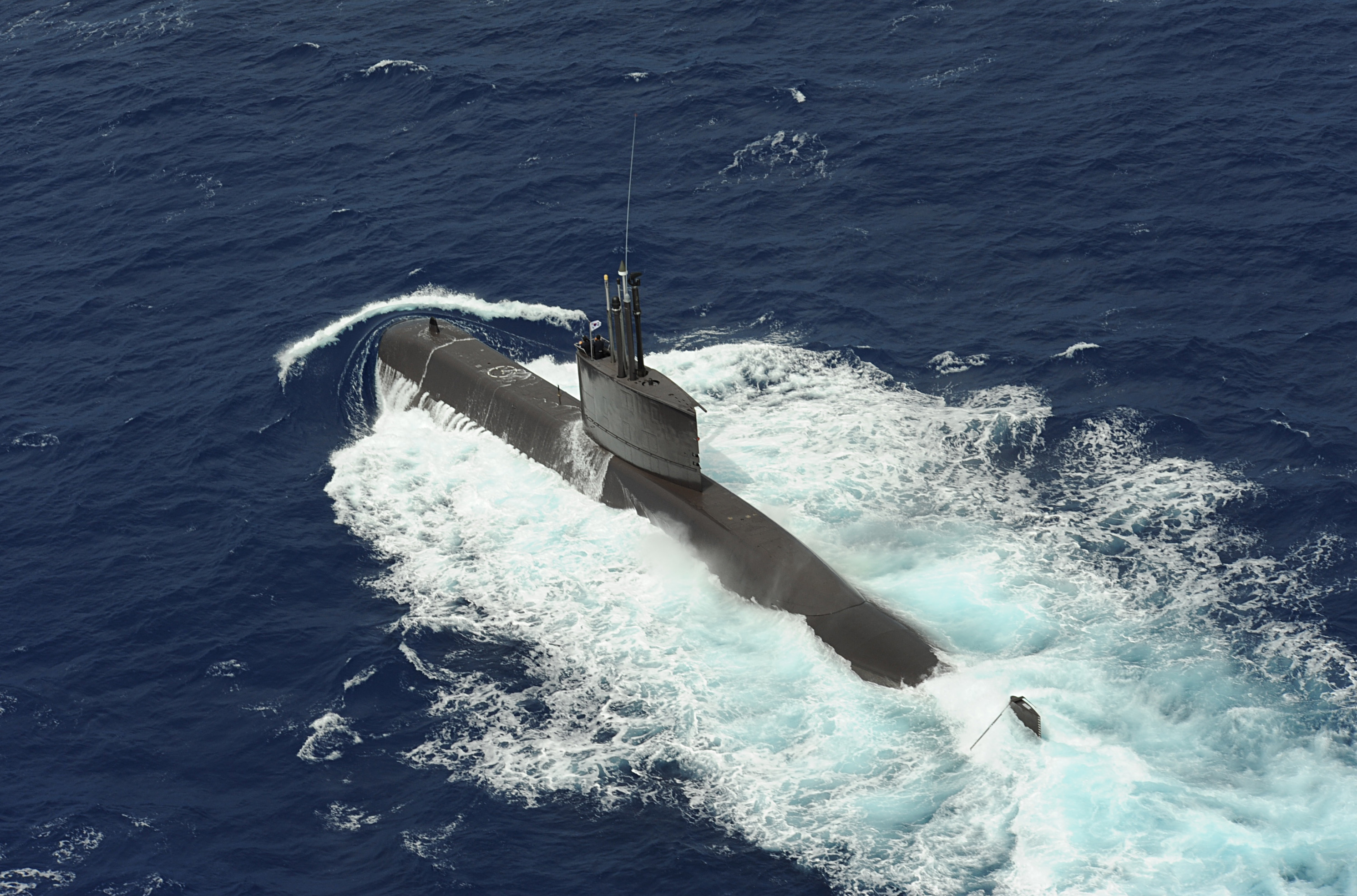 PEARL HARBOR (July 6, 2010) The Republic of Korea submarine ROKS Lee Eokgi (SS 071) transits on the surface after departing Pearl Harbor to participate in Rim of the Pacific (RIMPAC) 2010 exercises. RIMPAC 2010 is a biennial, multinational exercise designed to strengthen regional partnerships and improve interoperability. (U.S. Navy photo by Mass Communication Specialist 1st Class Scott Taylor/Released)